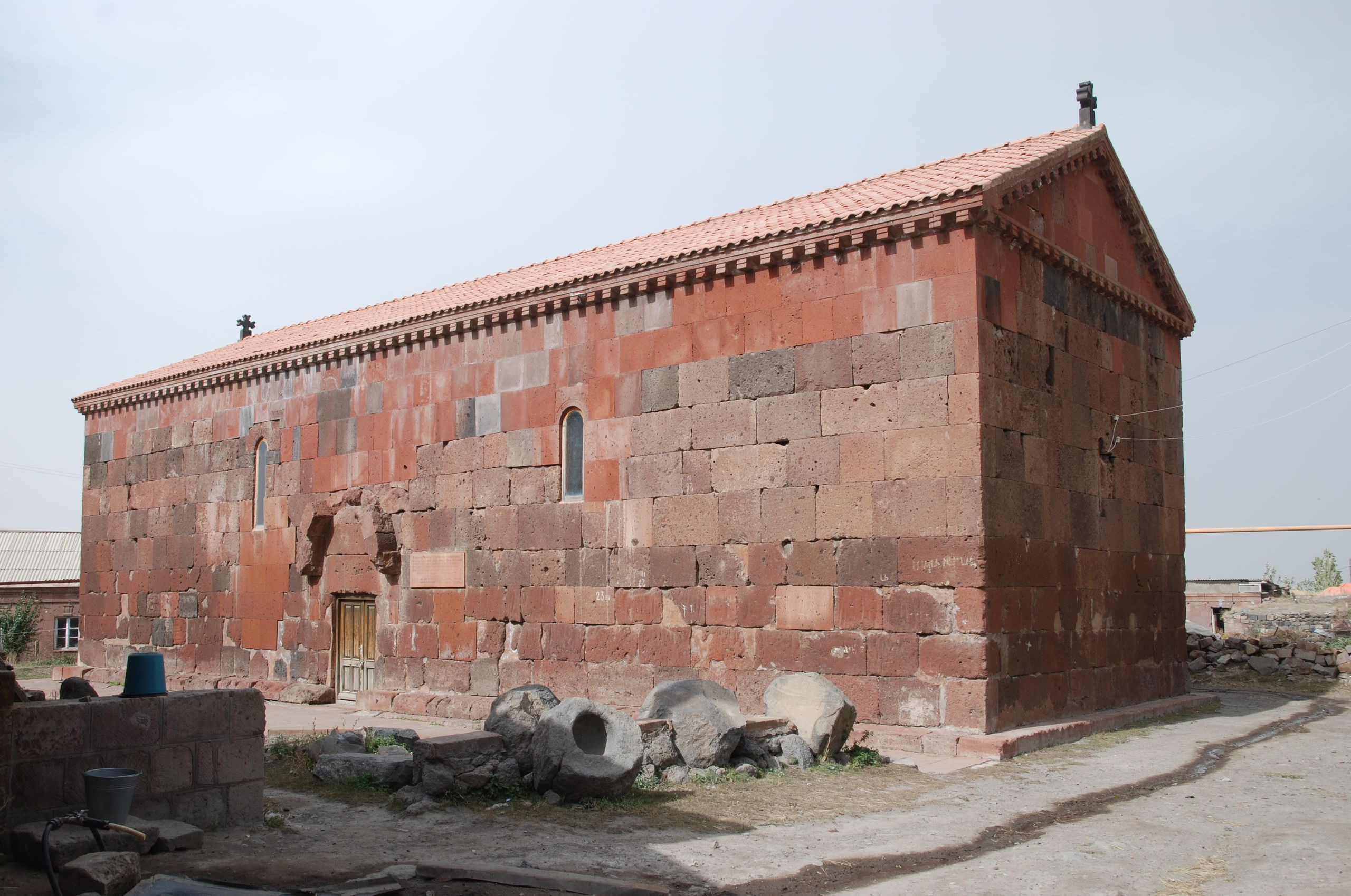 Lernakert, church